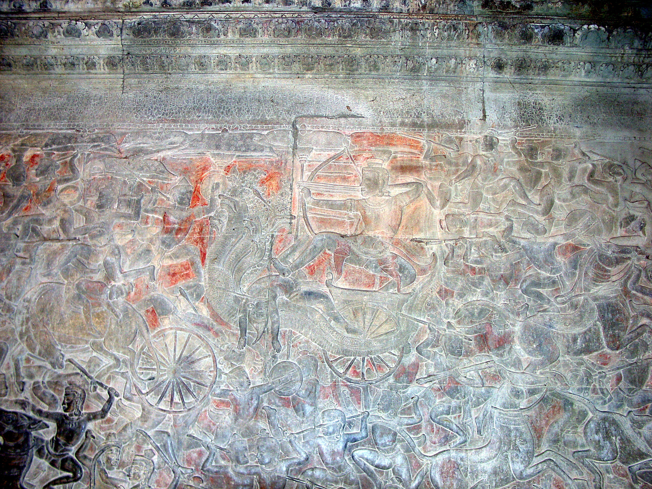 The armies of the devas and asuras interpenetrate in this relief, much as they would in a real battle. This figure's headdress and left-facing direction shows him to be an asura; he is otherwise unidentified, one of several devas and asuras who ride nagas in the relief. A dead soldier, transfixed by an arrow, is draped over the naga's body.